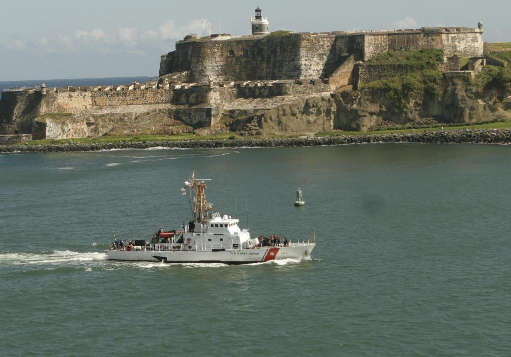 United States Coast Guard Cutter Chincoteague (WPB-1320) sailing off the coast of Puerto Rico.